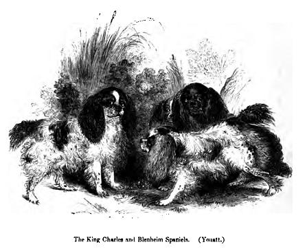 King Charles and Blenheim Spaniels. Drawing was by William Youatt (died 1847, as per Book published in 1859 by Longmans of London.